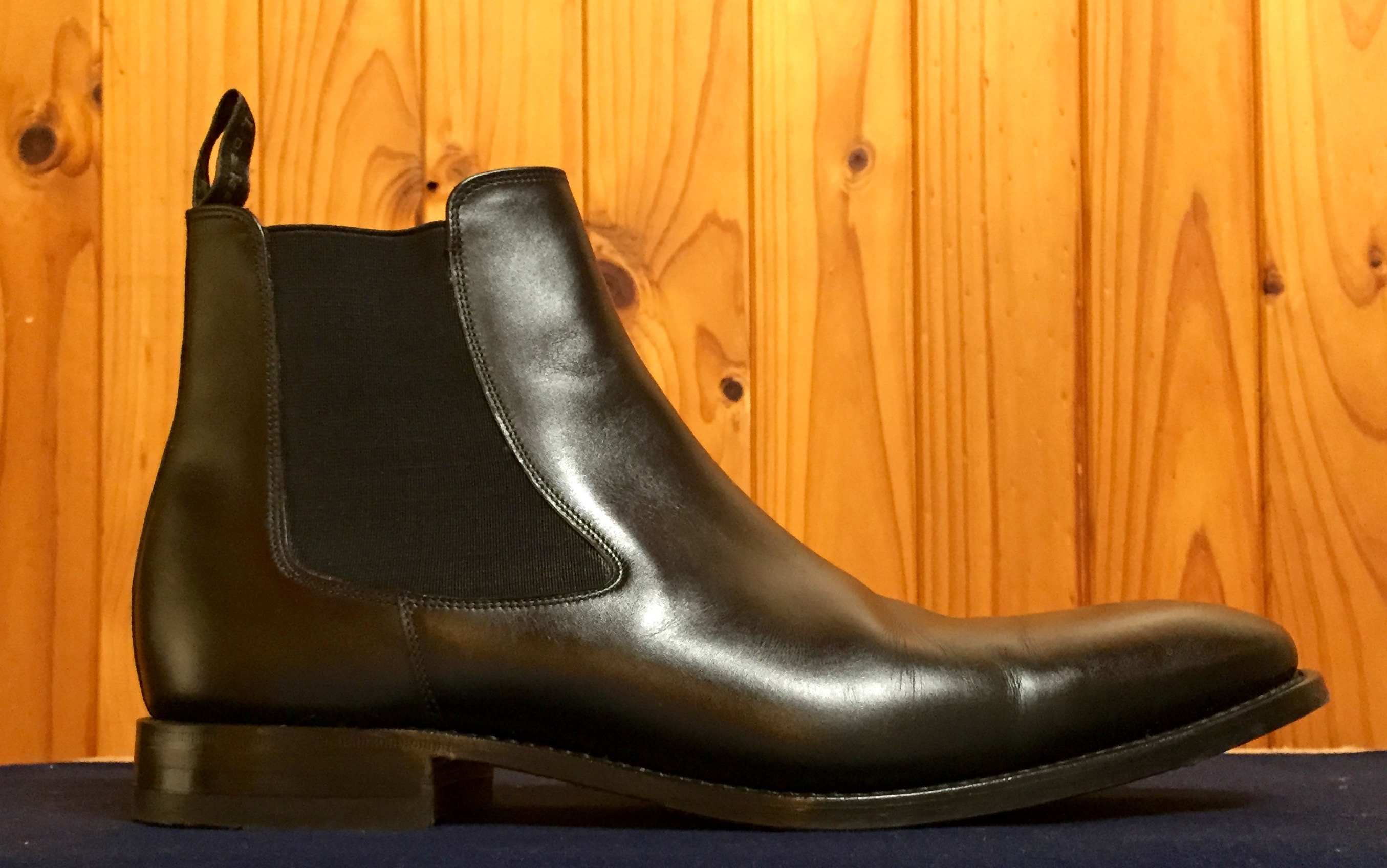 Loake "Hutchinson" Chelsea boot, black